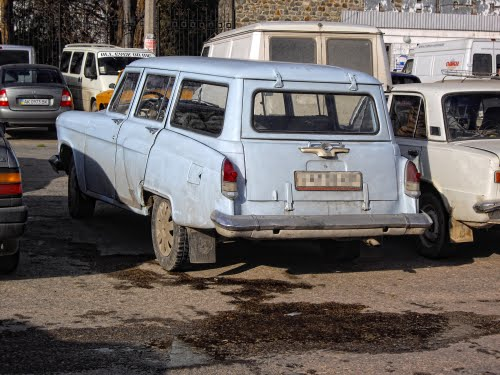 GAZ-22 back side